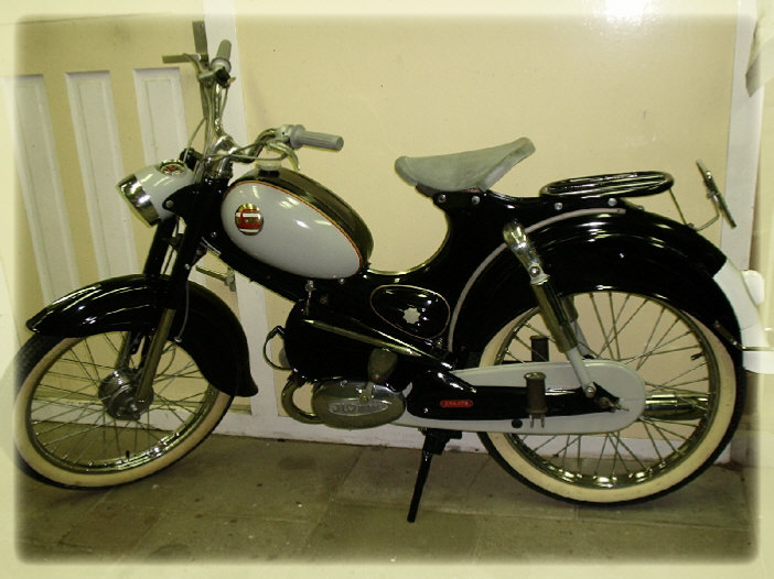 Sparta GB50 from 1957, engine JLO 49cc 2 versnellingen, owner Paul thomassen, Netherlands